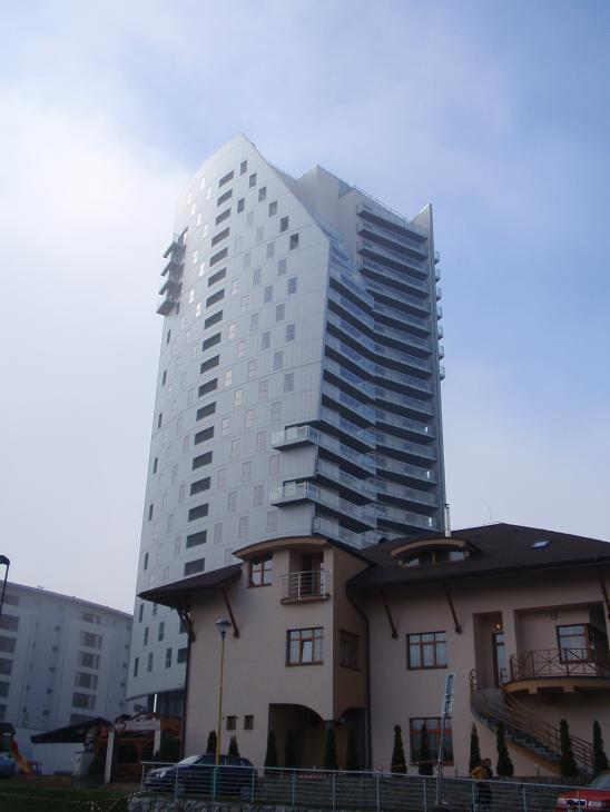 Amfiteater_Žilina